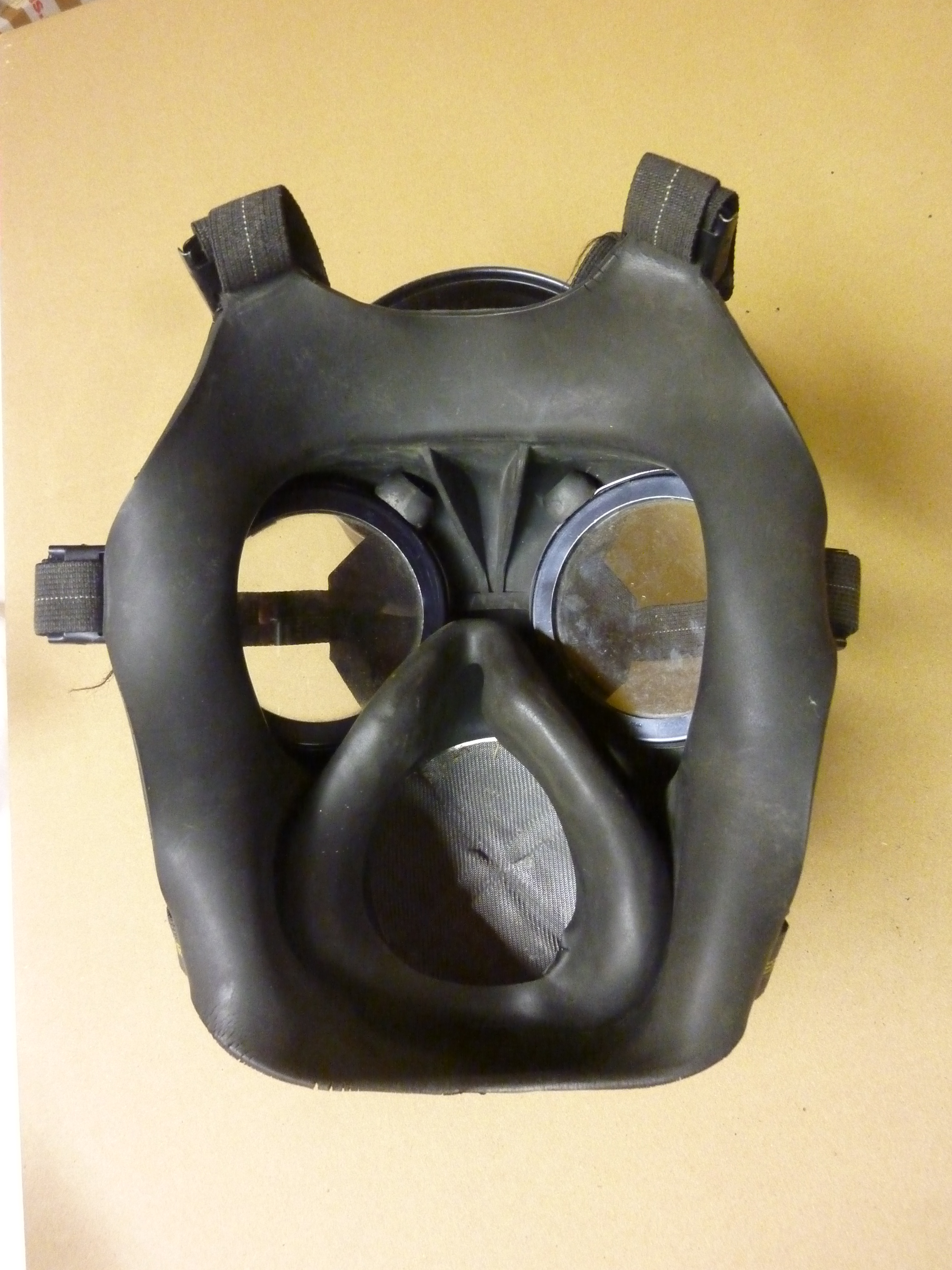 C3 M69 gas mask, view of the inside